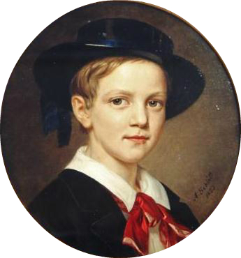 Prince Vilhelm, son of Christian IX of Denmark, later George I of Greece.